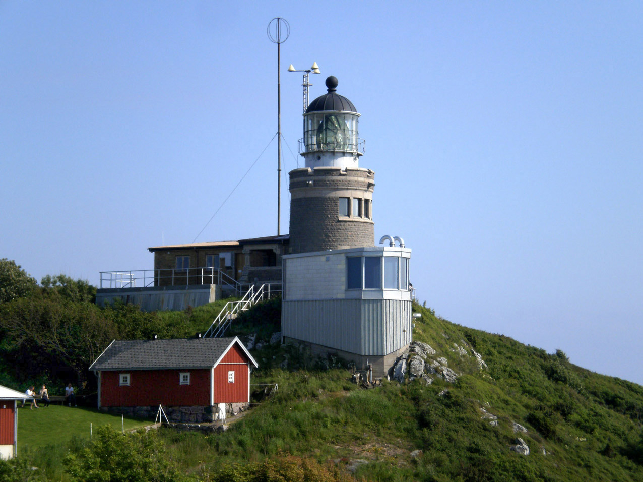 Kullen Höganäs 2010